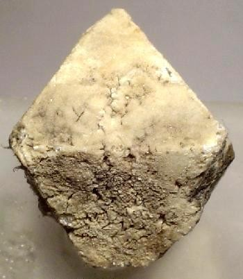 Sénarmontite Locality: Djebel Haminate Mine, Ain Beida, Constantine Province, Algeria (Locality at ) A sharp, large, euhedral, grayish-white senarmontite octohedron from the Type Locality in Algeria - the Djebel Haminate Mine. This is a fine example of this uncommon antimony oxide, even with one bruised tip at the base. 2.2 x 1.8 x 1.7 cm